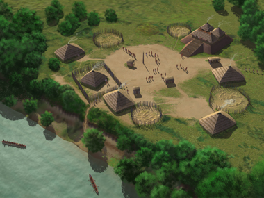 Town Creek Indian Mound (31 MG 2) during the late Town Creek-early Leak phases. The site is a prehistoric Native American archaeological site located near present-day Mount Gilead, Montgomery County, North Carolina.] Its main features are a platform mound with a surrounding. It was built by the Pee Dee, a South Appalachian Mississippian culture who lived in the Pee Dee River region of North and South Carolina. Town Creek was an important ceremonial site occupied from about 1150—1400 CE. It was the only ceremonial mound and village center of that culture located within North Carolina. Digital illustration, all rights held by the artist, Herb Roe © 2019